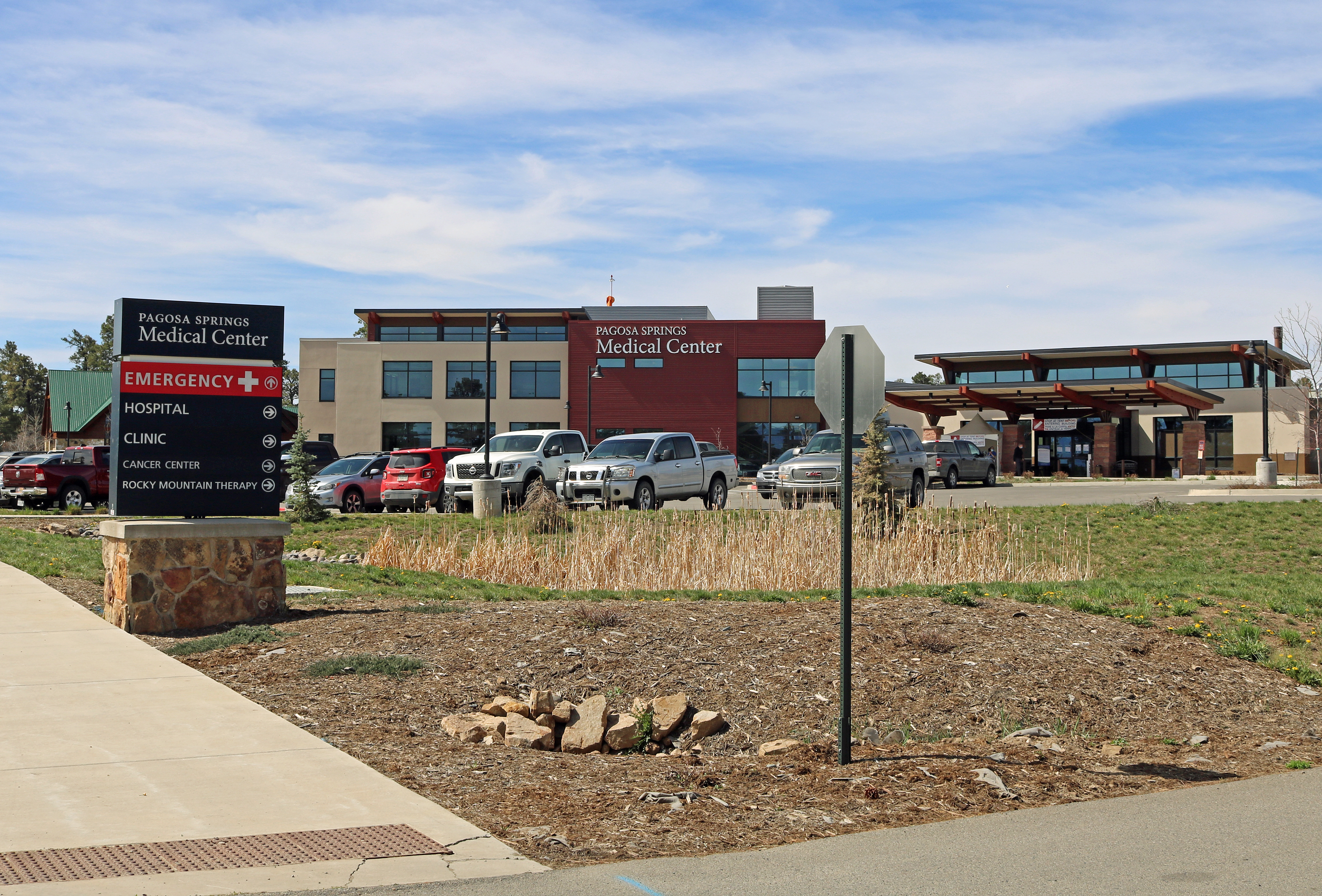 The Pagosa Springs Medical Center, located at 95 South Pagosa Boulevard in Pagosa Springs, Colorado 81147.